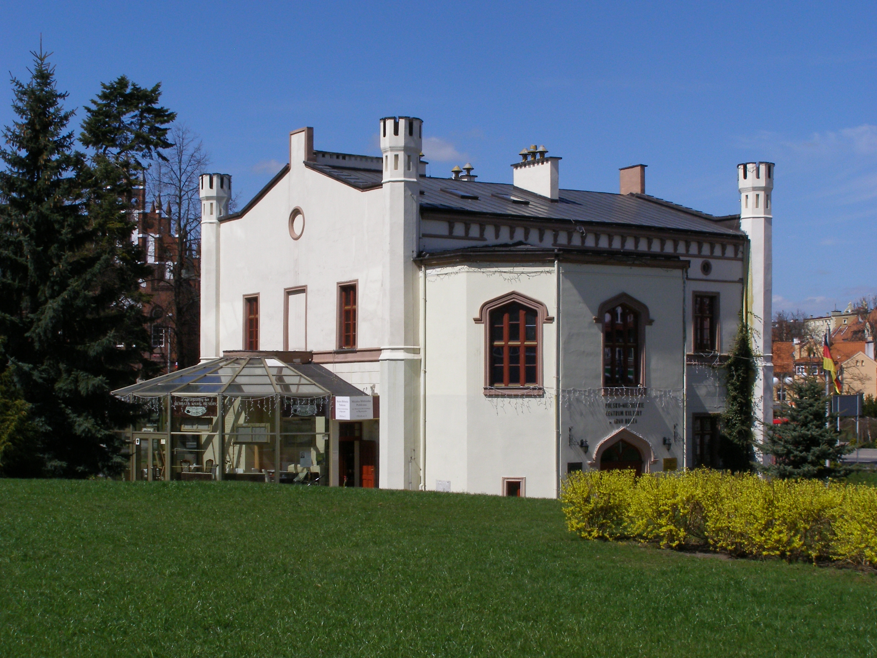 Kętrzyn - former Masonic Lodge